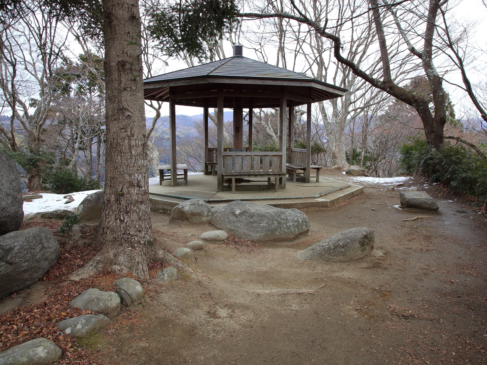 Top of Mount Iimori in Asuke, Aichi, Japan